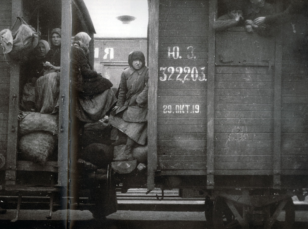 Russian refugees between railroad cars of a freight train during the Civil War in Russia.